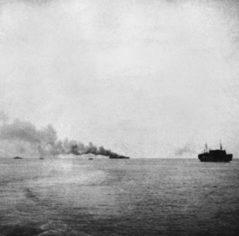 SS EMPRESS OF ASIA beached and burning. Most of the troops on board were rescued, but nearly all their weapons and equipment were lost. EMPRESS OF ASIA was the only vessel of the convoy reinforcing Malaya to be lost under the air attack. The vessel on the right is SS FELIX ROUSELL. The convoy comprised four vessels bringing the remainder of the 18th British Division to Singapore, and was the last convoy to reach the island before it fell.